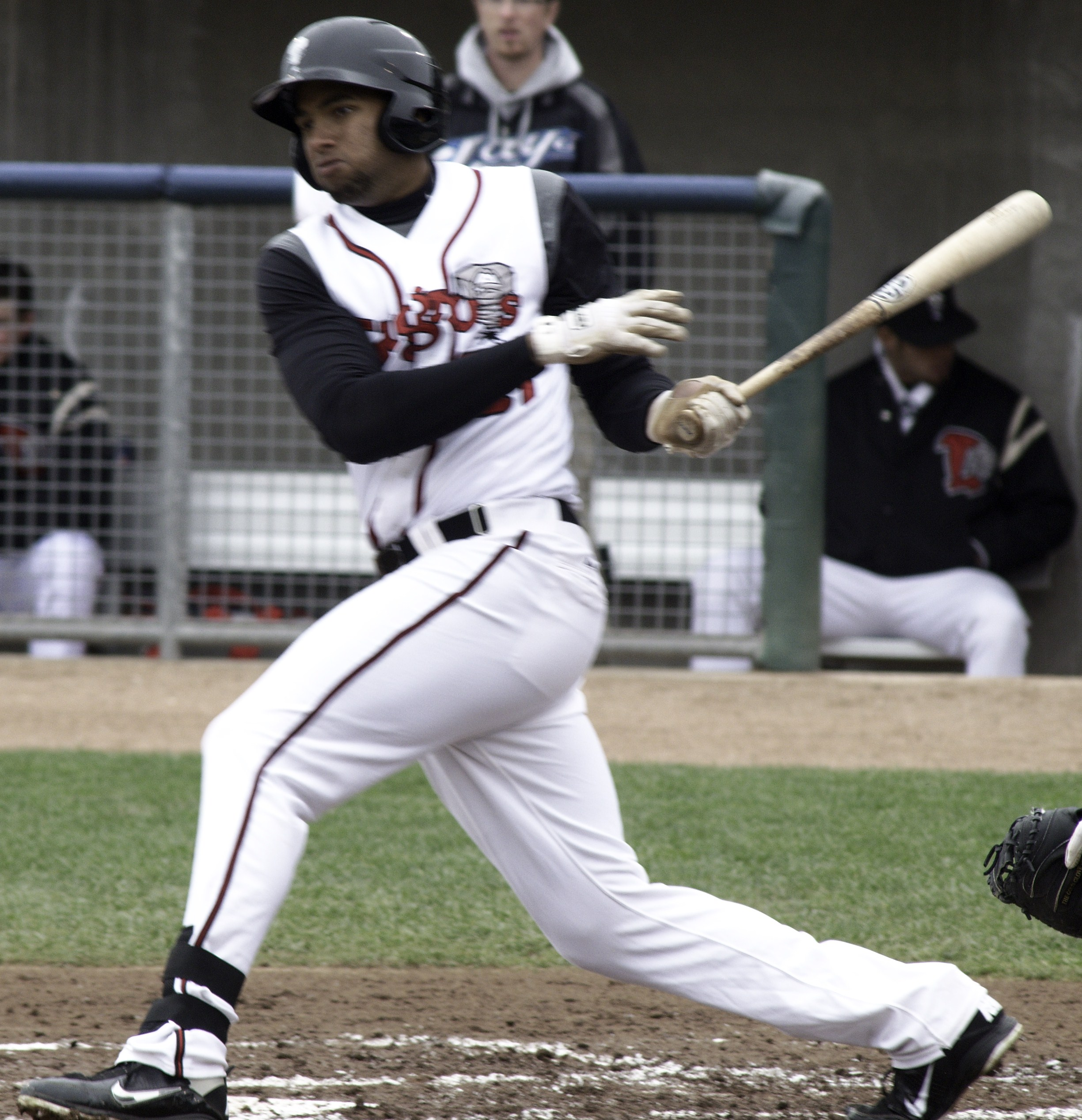 Lake County @ Lansing 05032011